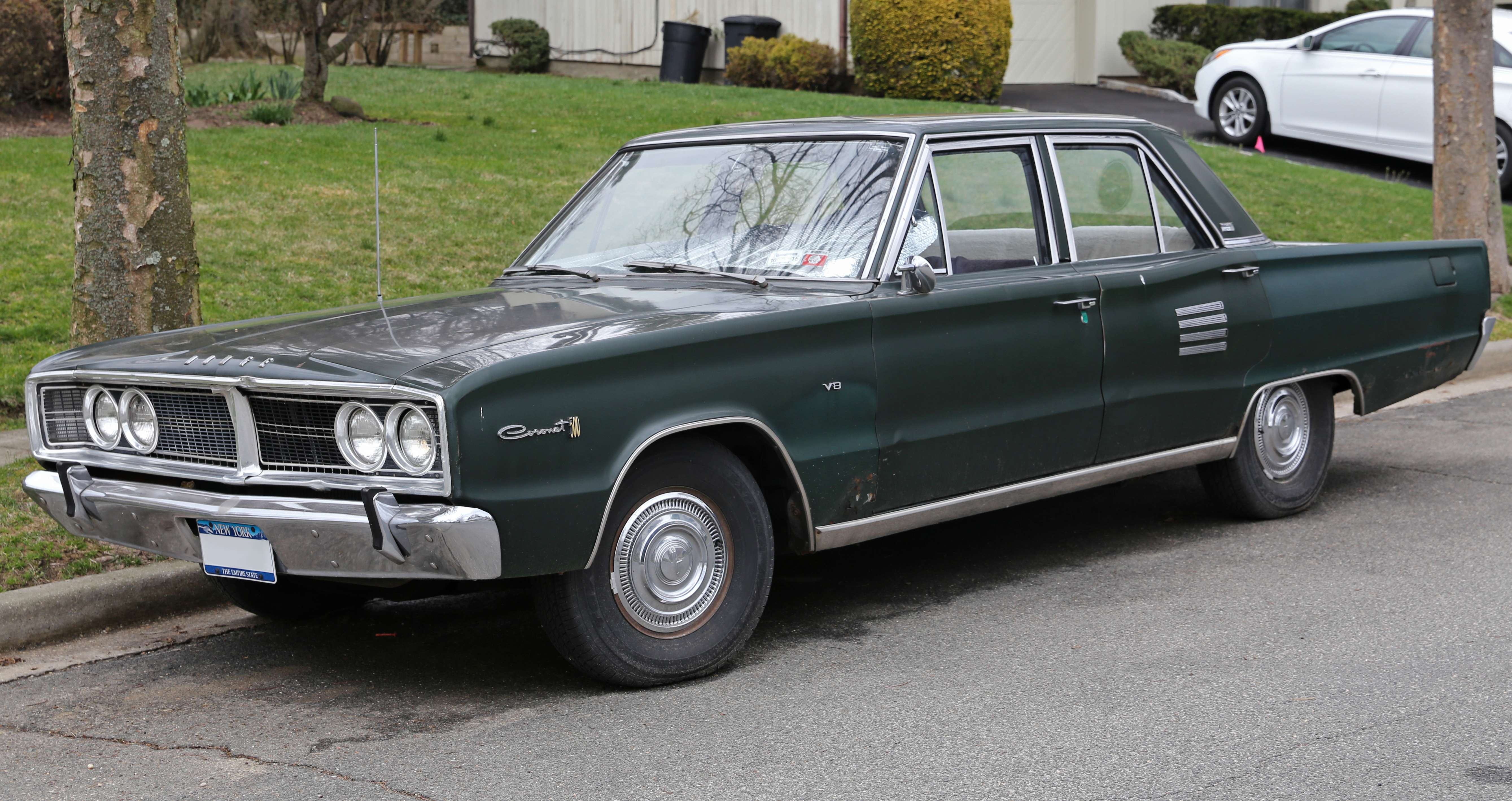 A 1966 Dodge Coronet 500 SE (Special Edition), the name given to the four-door Coronet 500. This example has a twin-barrel 273ci "LA" series V8 engine.